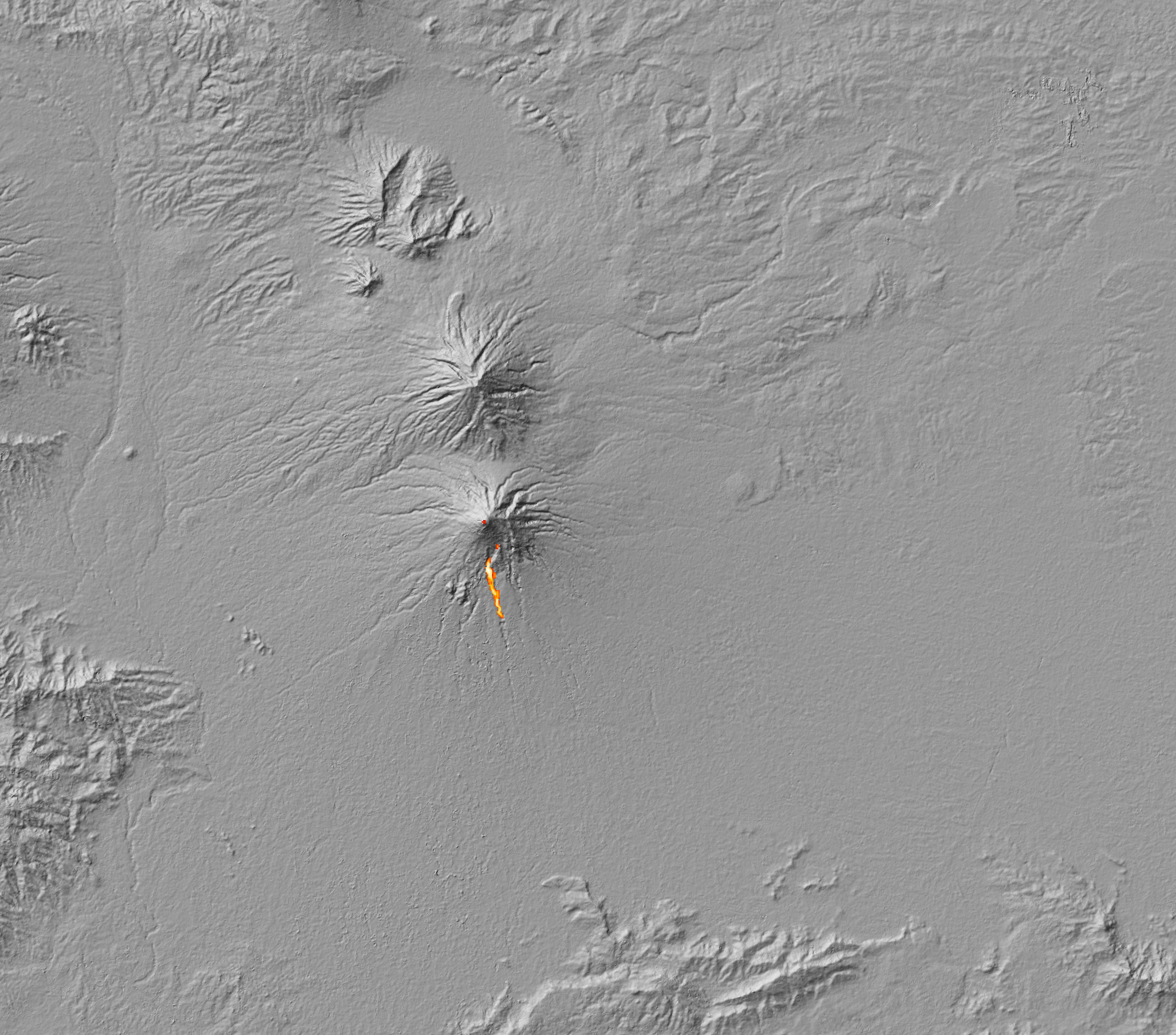 The thermal signature of hot ash and rock and a glowing lava dome on Mount Merapi. The thermal data is overlaid on a three-dimensional map of the volcano in this image to show the approximate location of the flow. The Center of Volcanology and Geological Hazard Mitigation reported that two pyroclastic flows moved down the volcano on October 30, 2010. A pyroclastic flow is an avalanche of extremely hot gas, ash, and rock that tears down the side of a volcano at high speeds.